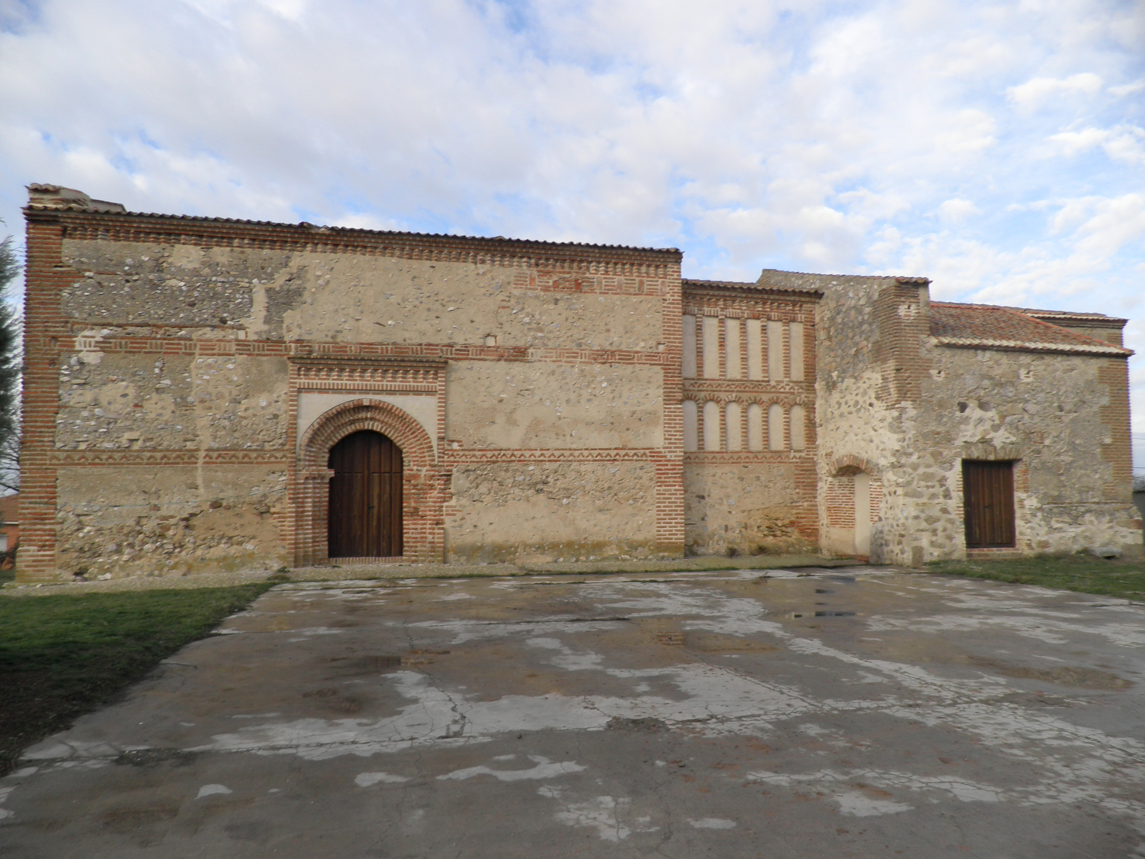 Old church of Melque de Cercos, in Segovia province, Spain.